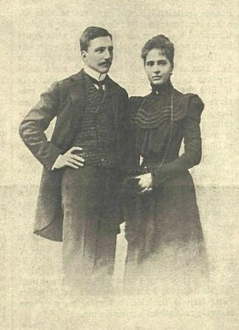 Hungarian diplomat József Somssich with his wife